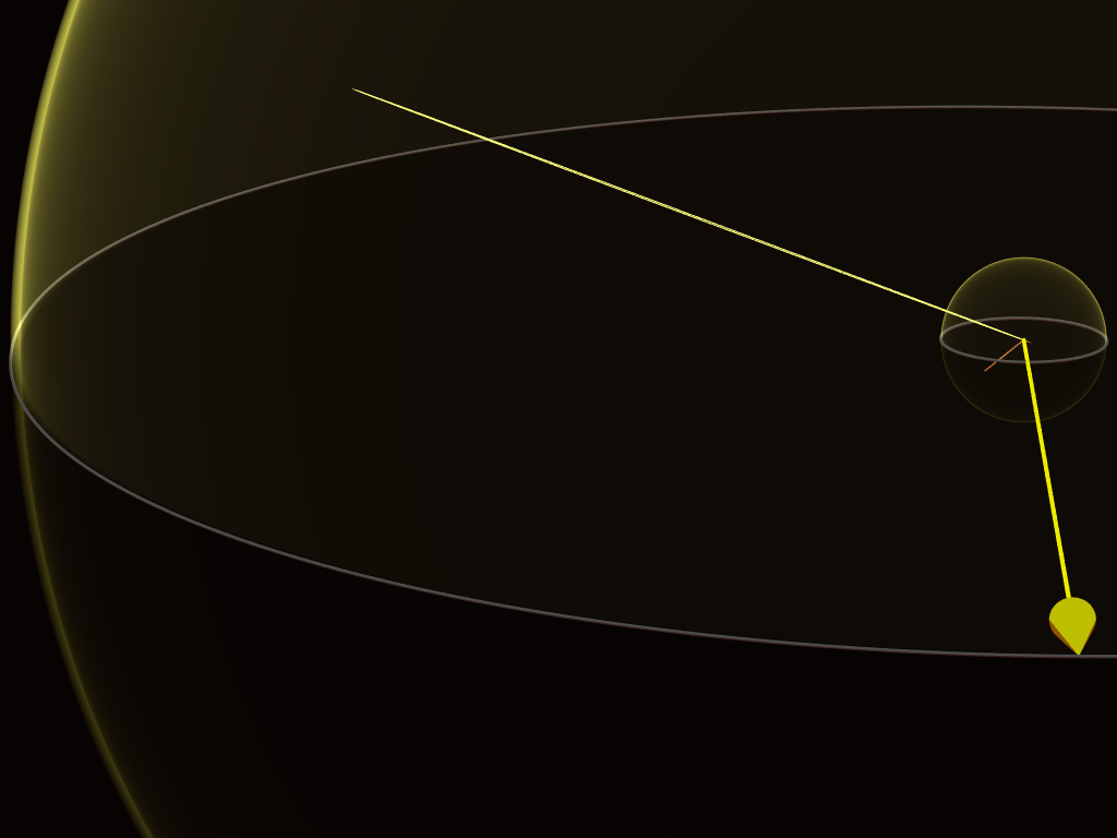 Comparison of sizes of lengths with order of magnitude 1e15m: light year shell (largest yellow sphere with yellow Vernal point arrow as radius); Comet 1910 A1's orbit (long yellow extreme ellipse to left); light month shell (inner yellow sphere) with Hyakutake's orbit inside. All to scale. No transparency version.